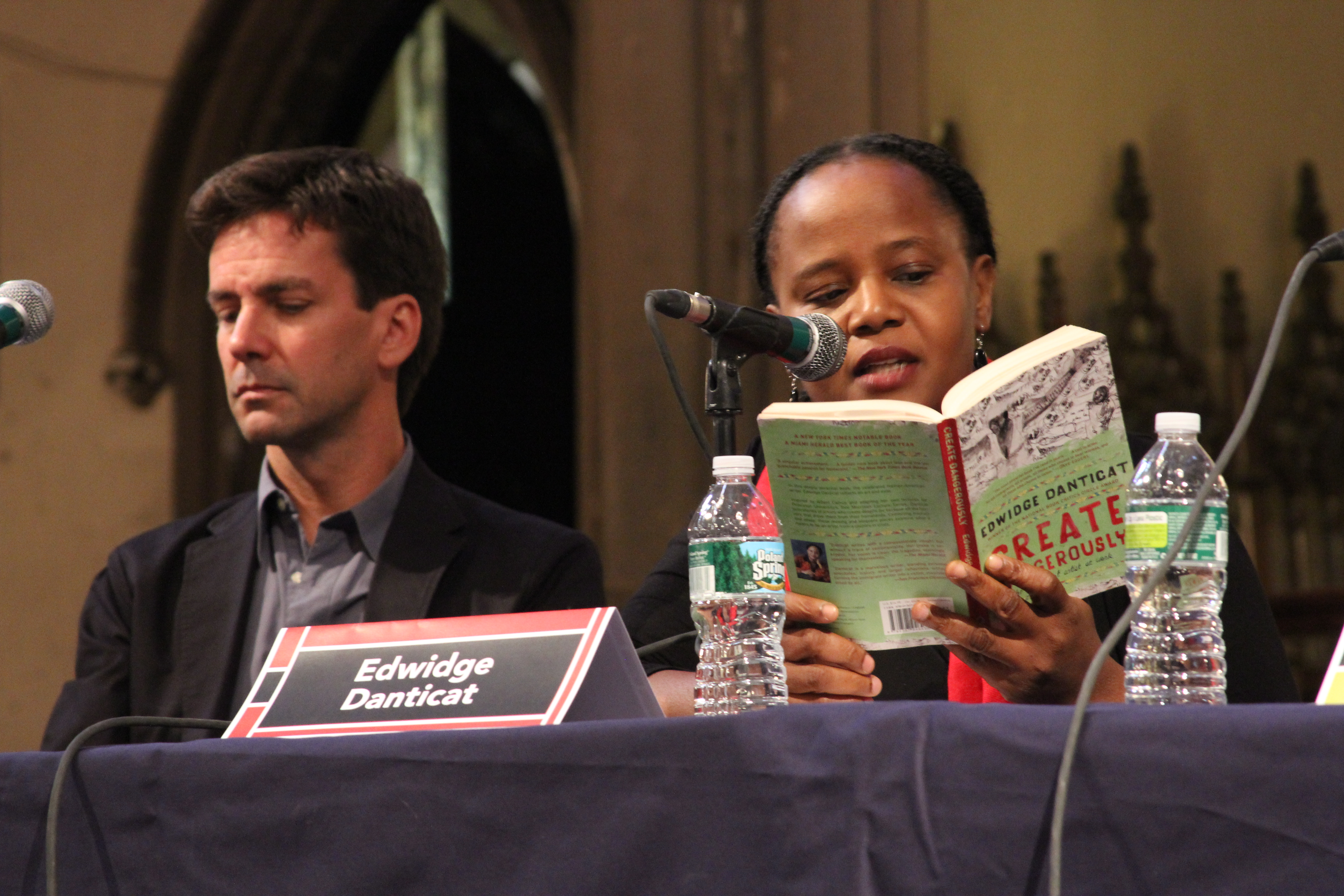 Johnny Temple and Edwidge Danticat